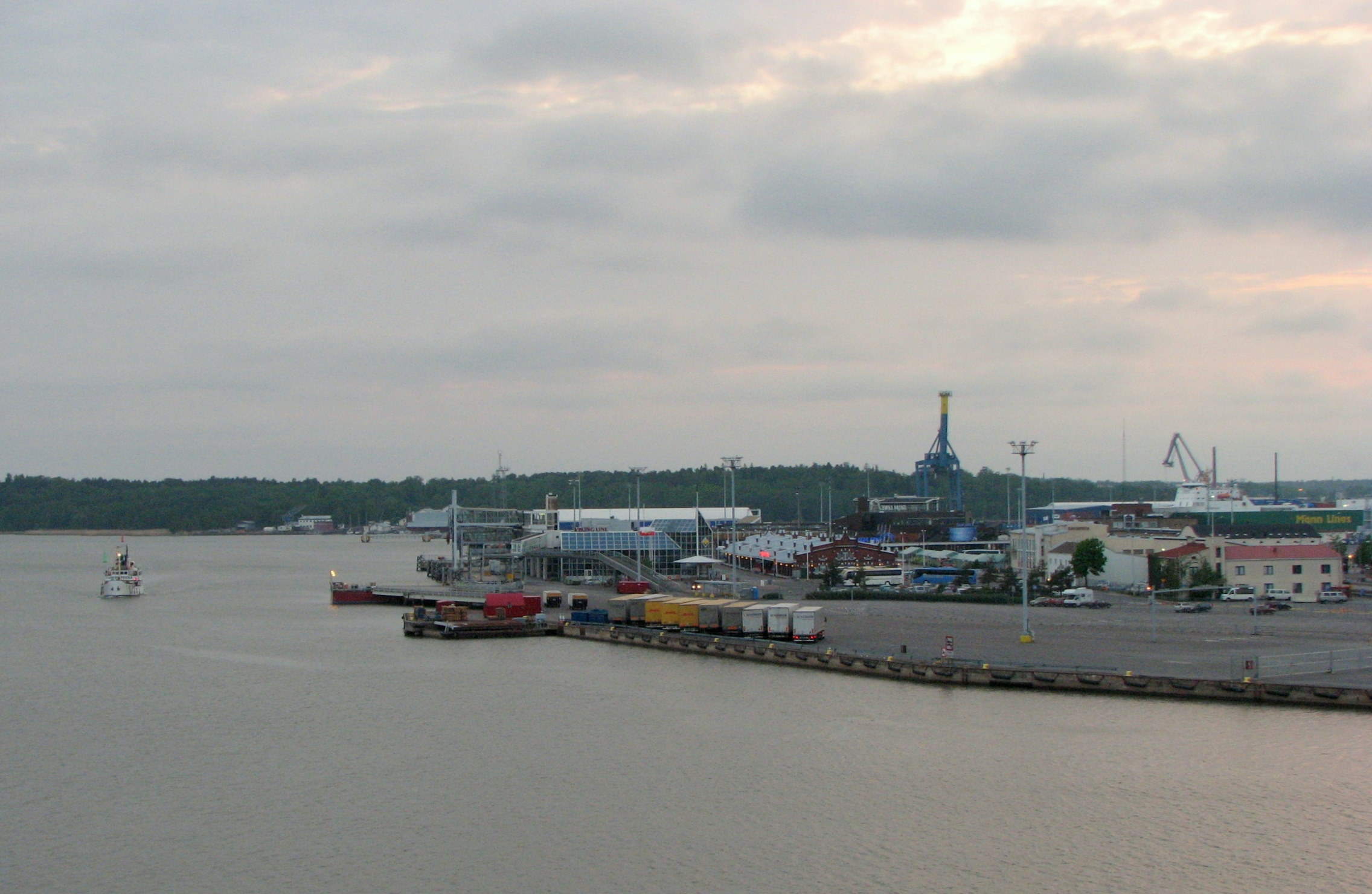 Turku harbour. The boat on the left is S/S Ukkopekka